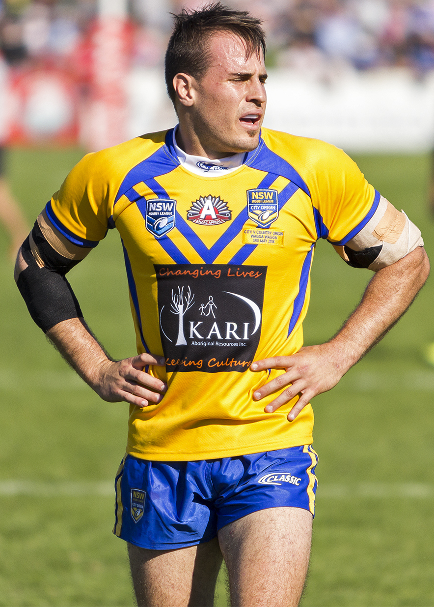 Josh Reynolds playing for City in the City vs Country Origin game at McDonalds Park in Wagga Wagga.